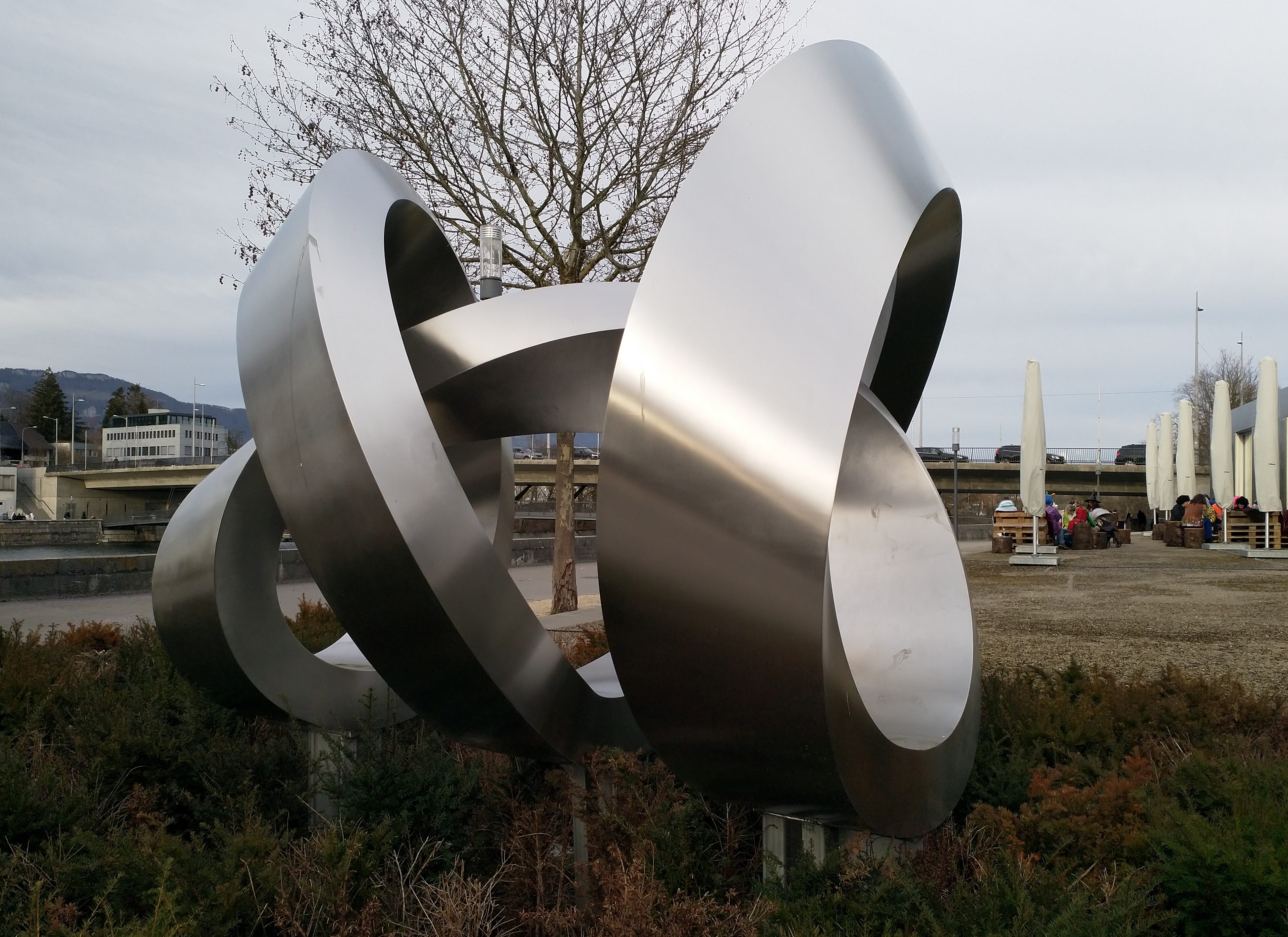 Sculpture "Loop" by Carlo Borer at Kreuzackerplatz, Solothurn, Switzerland. Blick in Richtung Rötibrücke.